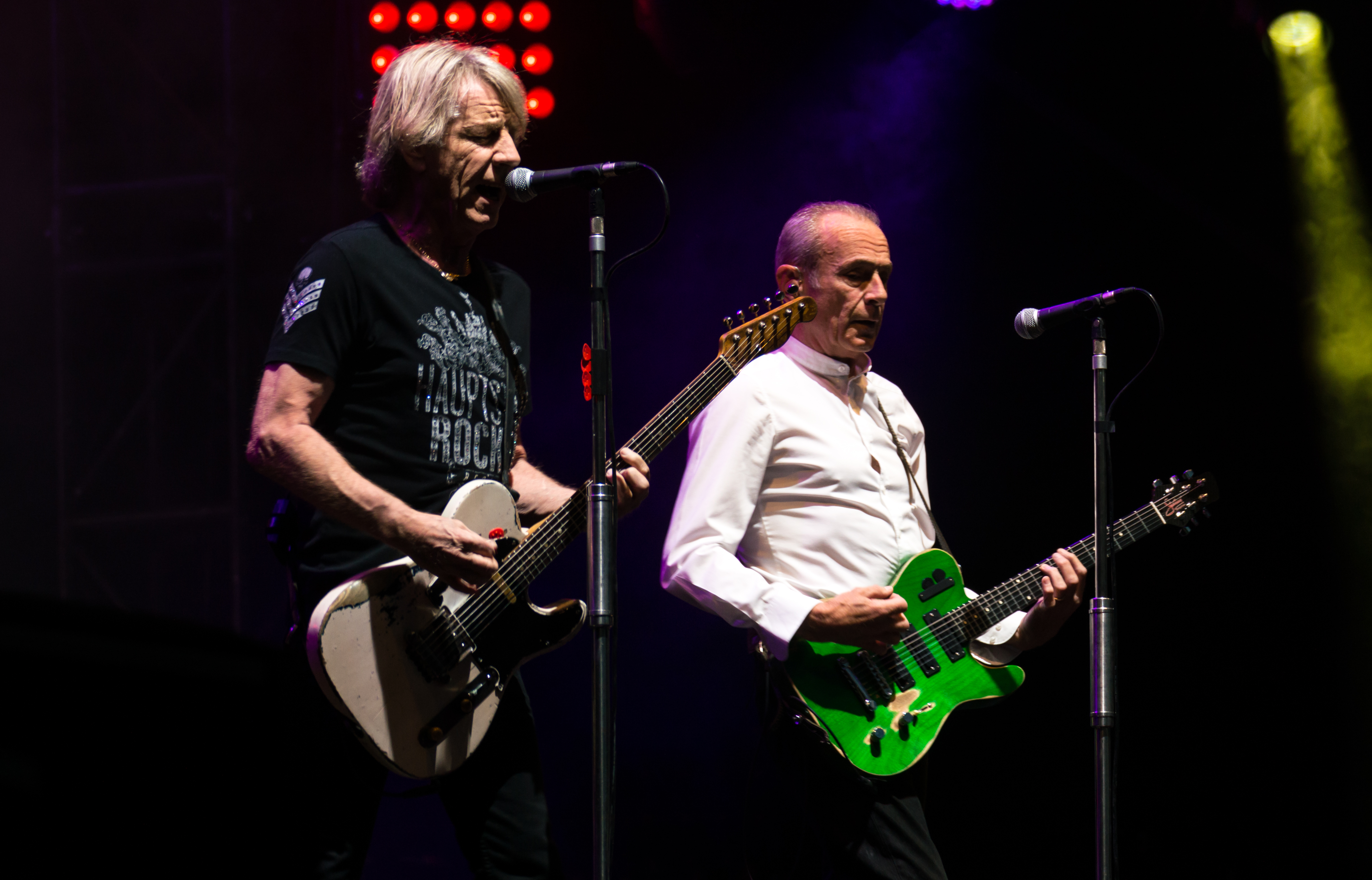 Status Quo at Pause Guitare 2015 (Rick Parfitt and Francis Rossi)